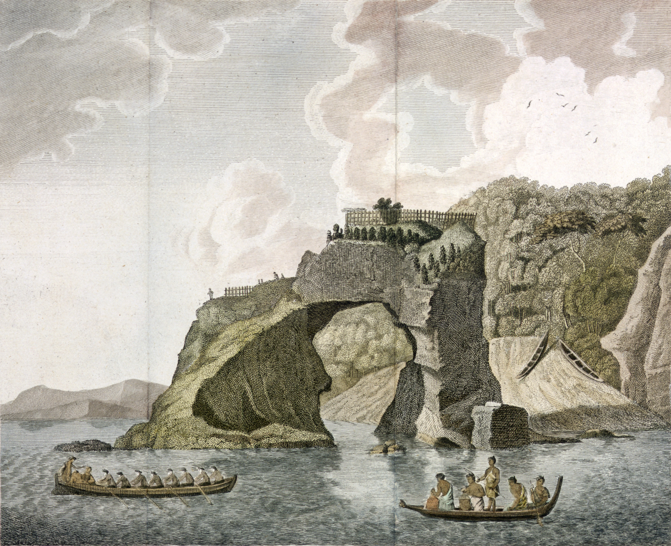 Shows Europeans at left and Maori at right, paddling two canoes in the foreground, with the arched rock behind. Some canoes are drawn up on the steep back at the right beyond the rock. Derived from the first published illustration in Hawkesworth's voyages, 1773, v. 2, pl 18, which in turn is from a pencil drawing by Herman Diedrich Sporing ('A perforated rock fortified on the top'. Endorsed in Sporing's hand, `Sporing's Grotto. Opuragi-bay. New Zealand). The view is actually of Te Puta o Paretauhinu at Mercury Bay not Tolaga Bay. `Opoorage' was Cook's rendering of Purangi ie Mercury Bay. See also footnote in Beaglehole's Cook, v. 1, p 200. Confusion has arisen in early titling of engravings on account of the Sporing and Parkinson views of the Tolaga Bay archway (see plates in Bernard Smith and Beaglehole). Engraving, 203 x 330 mm. Cropped from original (see "File history" below).